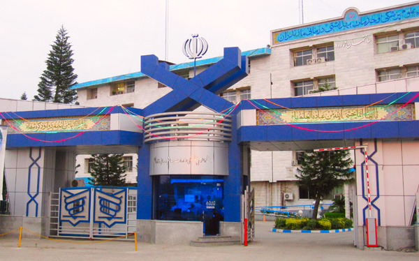 Mazandaran University of Medical Sciences, Central building